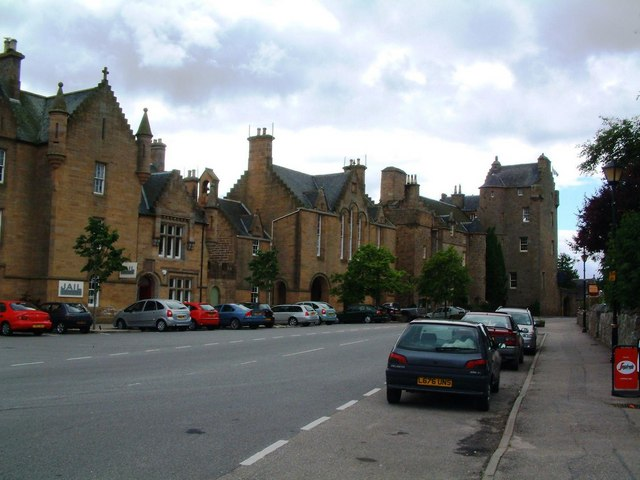 Dornoch: Castle Street